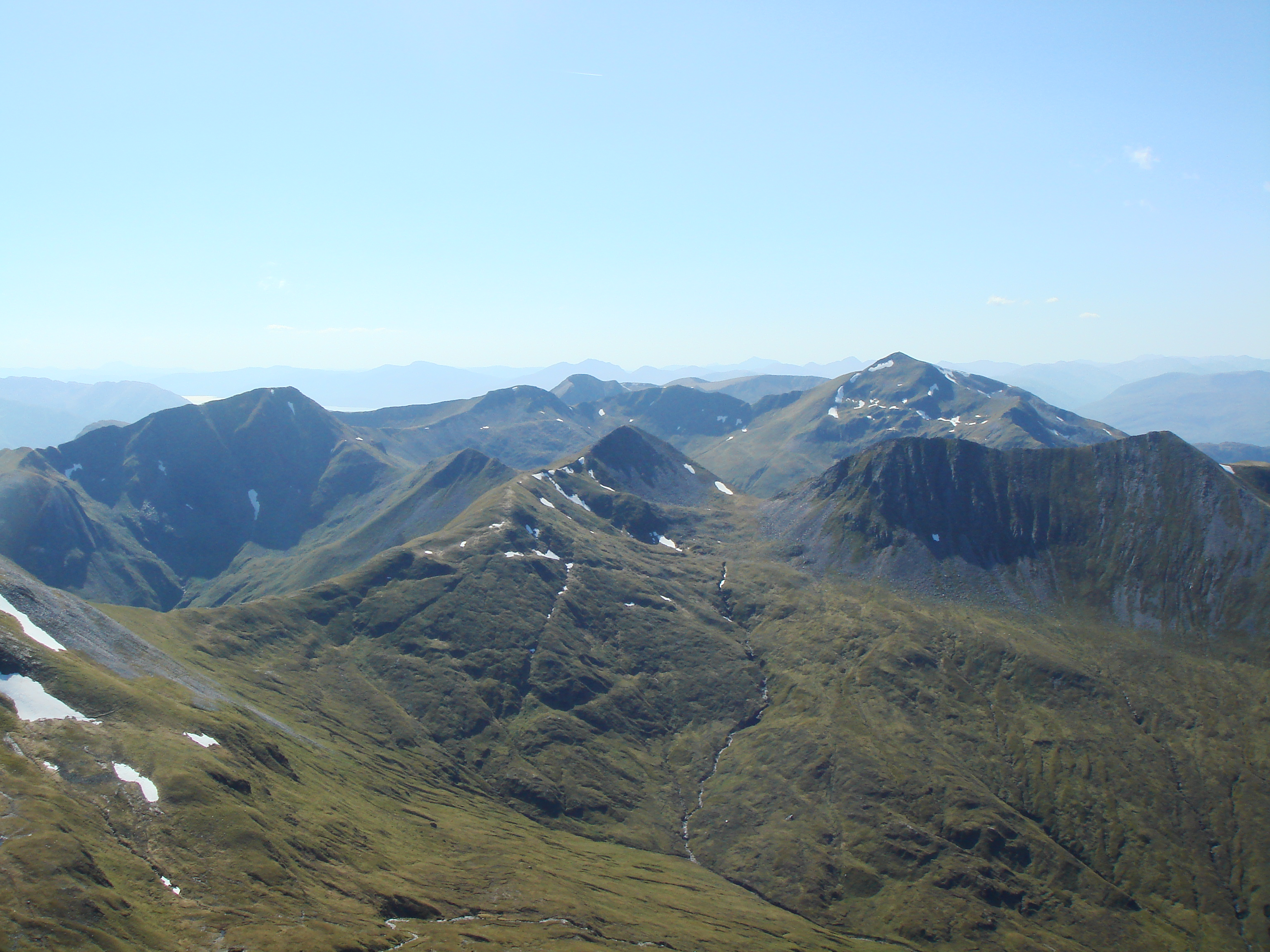 The peaks of the Mamore range from the top of Binnein Mor.